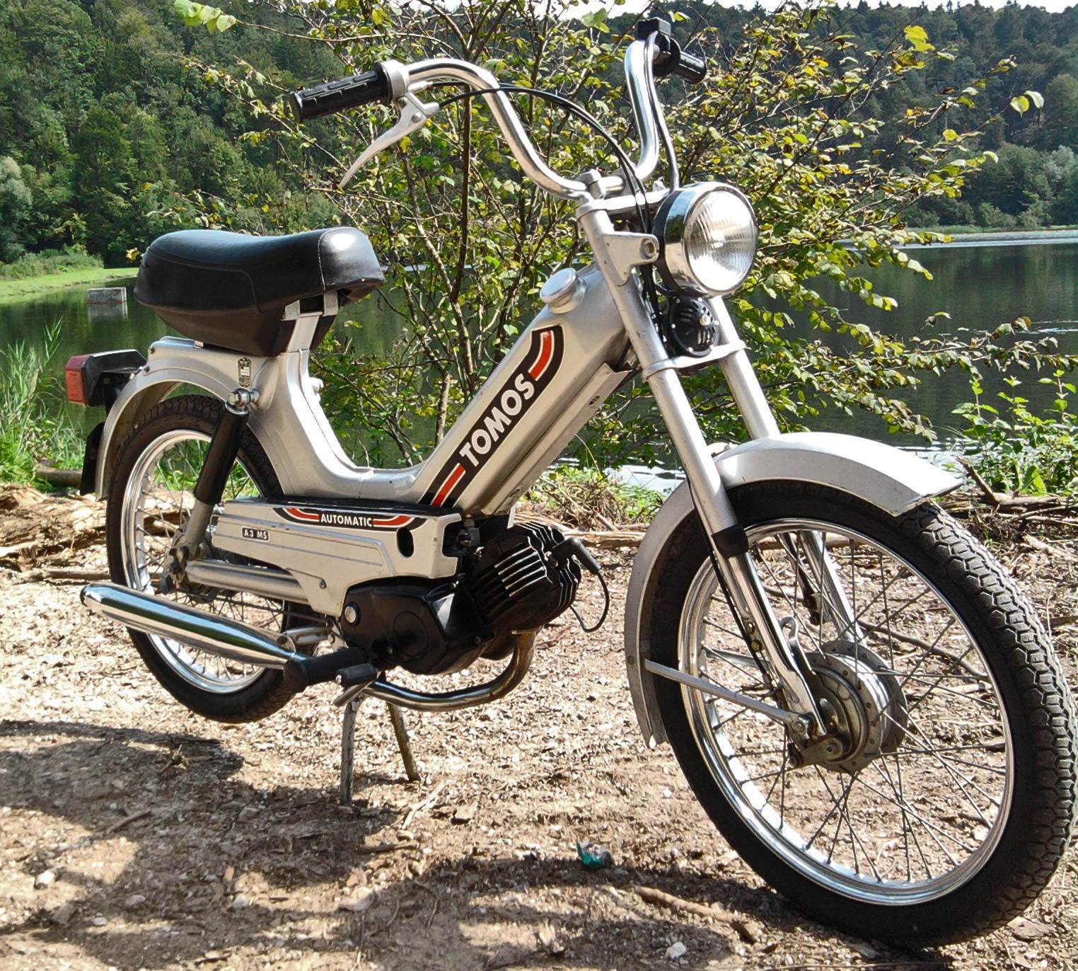 Tomos Automatic 1986